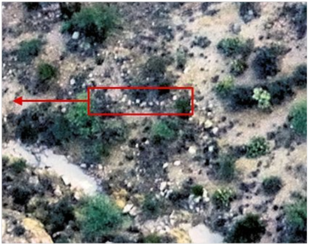 Axis line of the Latin Heart on the battle site